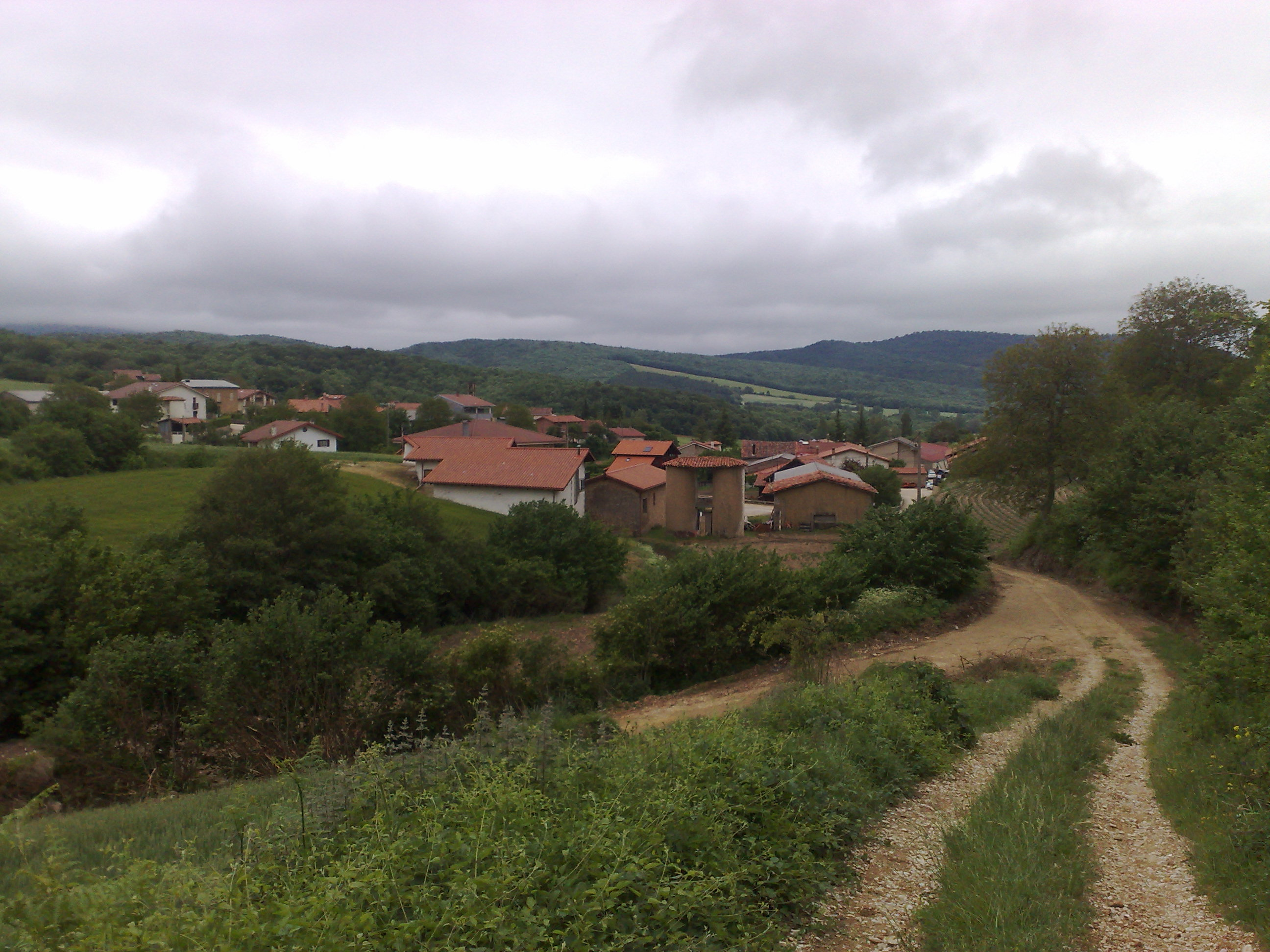 Sabando seen from the way to mount Arburu, Arraia-Maeztu, Araba, Basque Country.